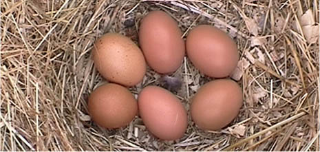 Barnevelder chicken eggs. Photo by MOrgan Leigh morgan at wirejunkie dot com